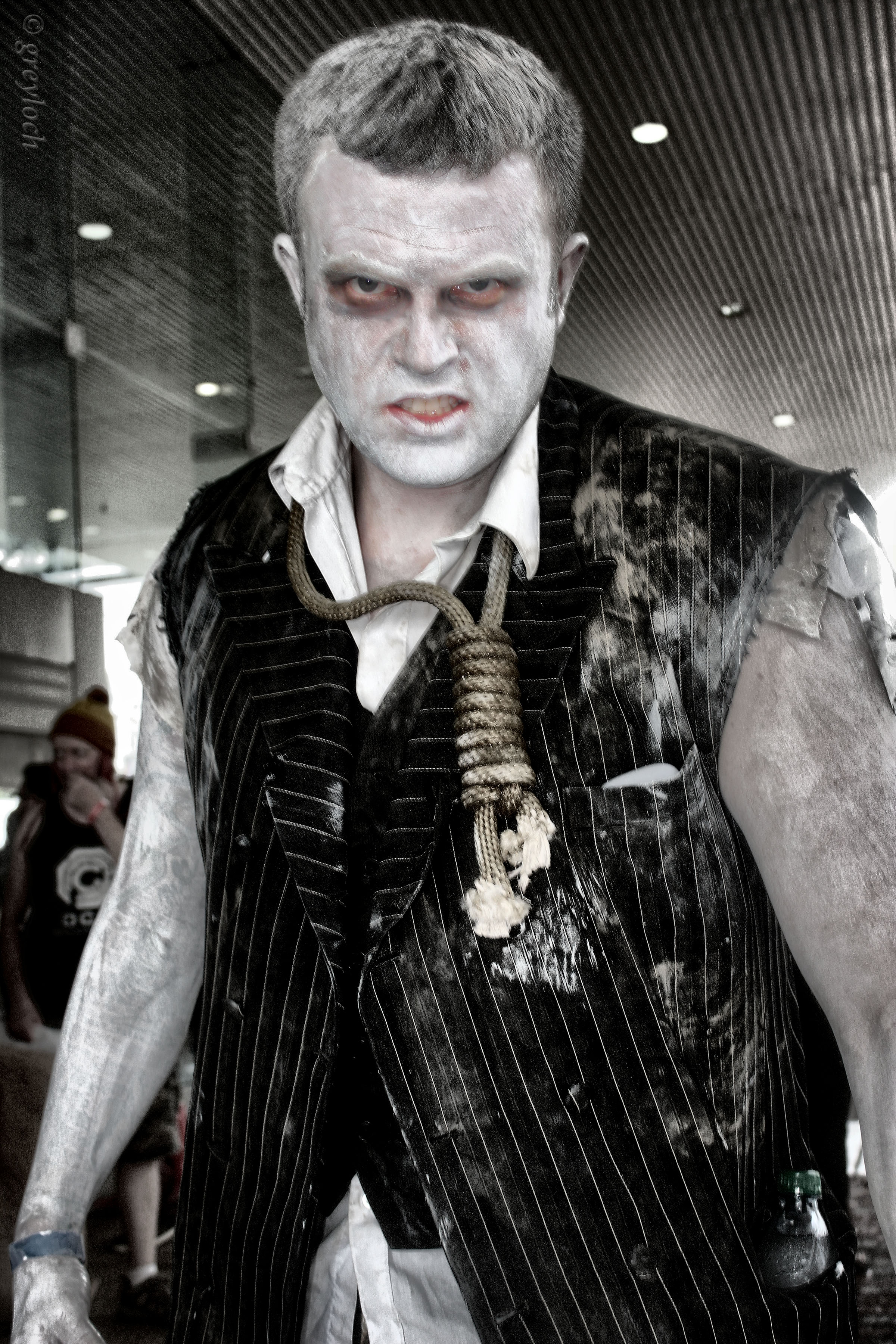 Solomon Grundy. Image darkened with Topaz Lab's "Adjust" (charcoal sketch filter). He looks a bit like the actor Adam Baldwin. UPDATE: Solomon Grundy was featured in Uproxx's A Compendium Of Cool Comics Cosplay: Penultimate Edition (2.21.14)!! I'm sadded to hear that the weekly edition of this cosplay round-up will be ending soon but honored that they chose two of my pics for this edition.